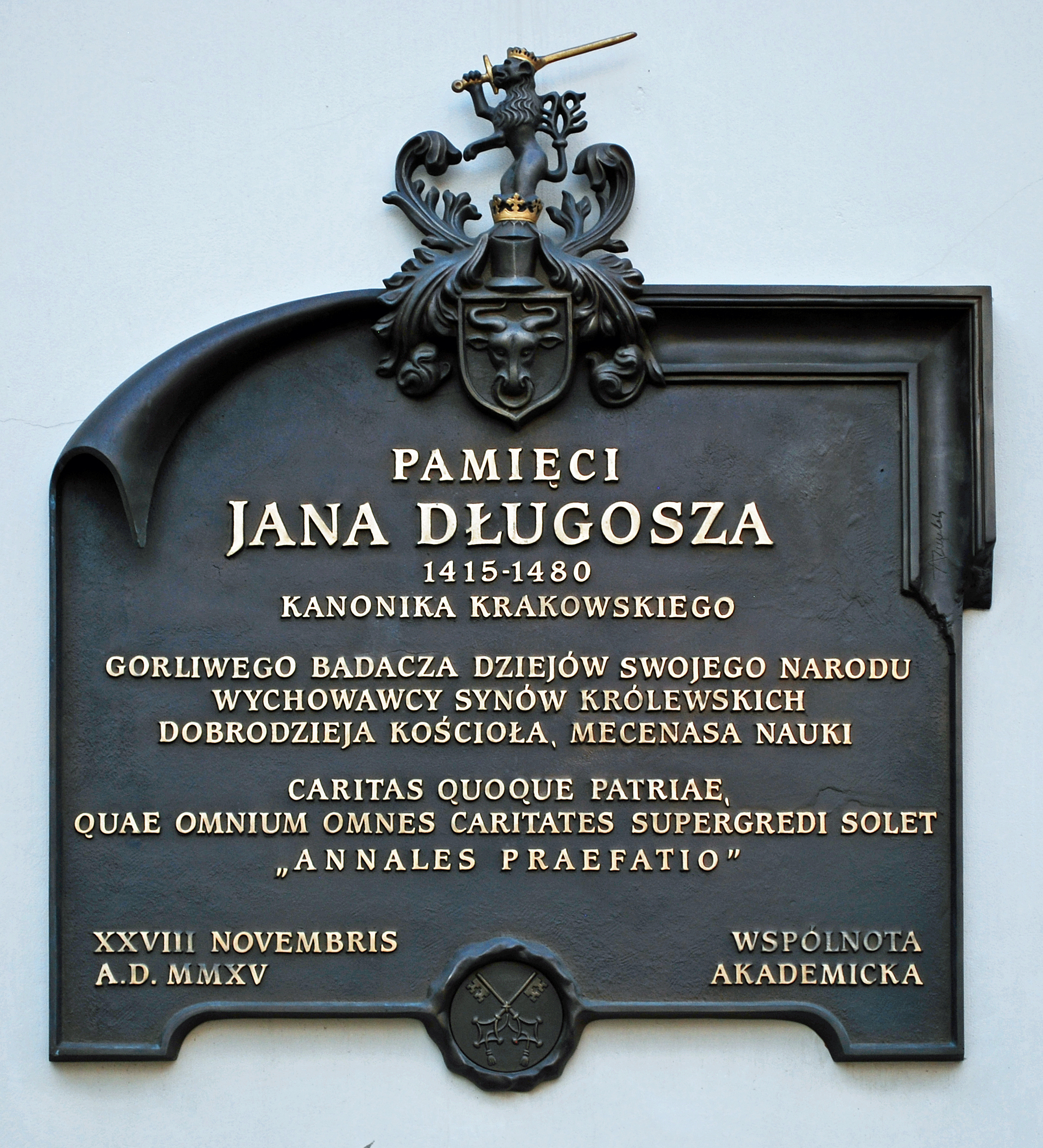 Commemorative plaque in tribute to Jan Długosz (Polish historician), 25 Kanonicza street, Old Town, Krakow, Poland